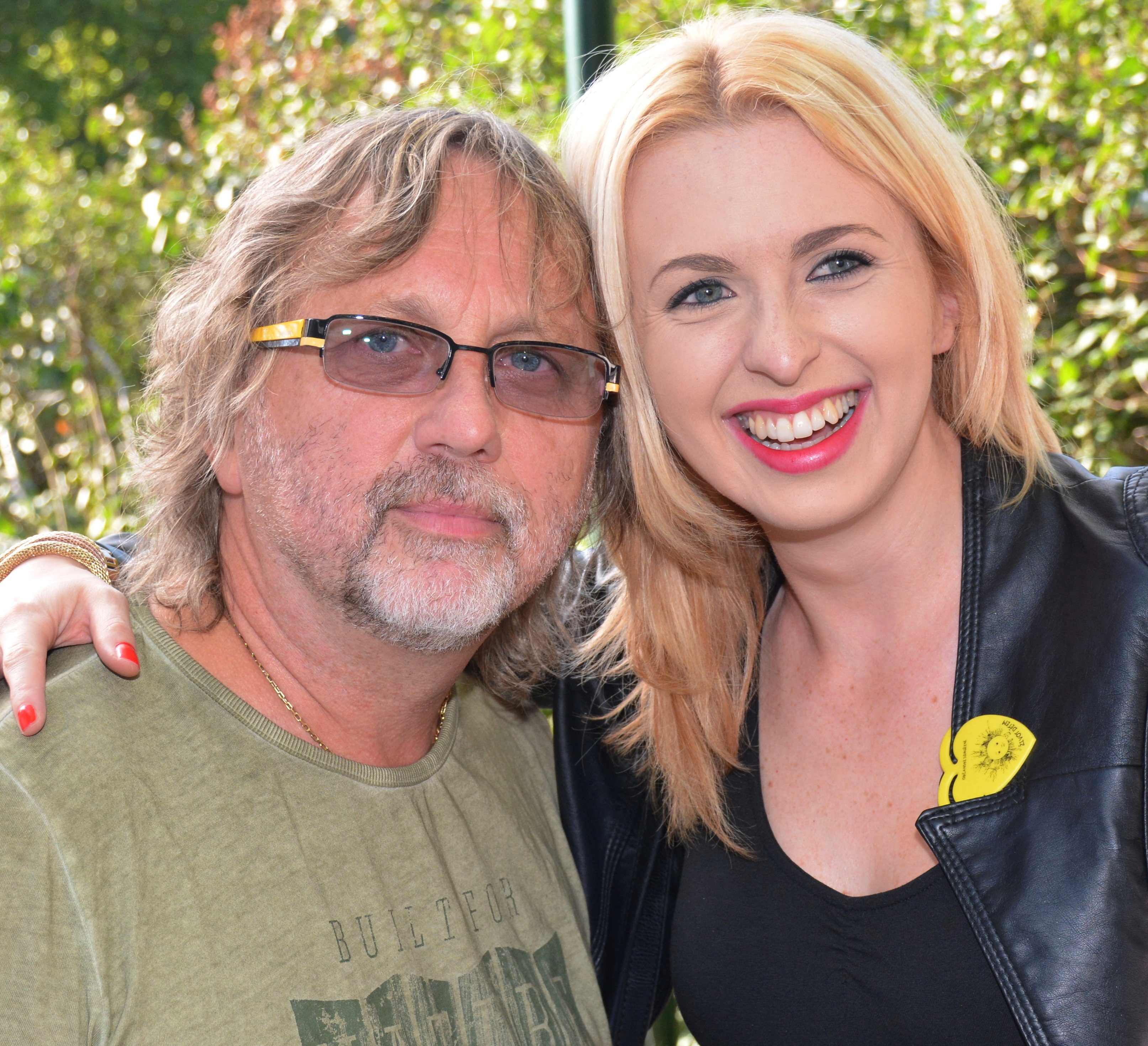 Dalibor Janda, Czech vocalist and his daughter Jiřina Jandová, Czech vocalist